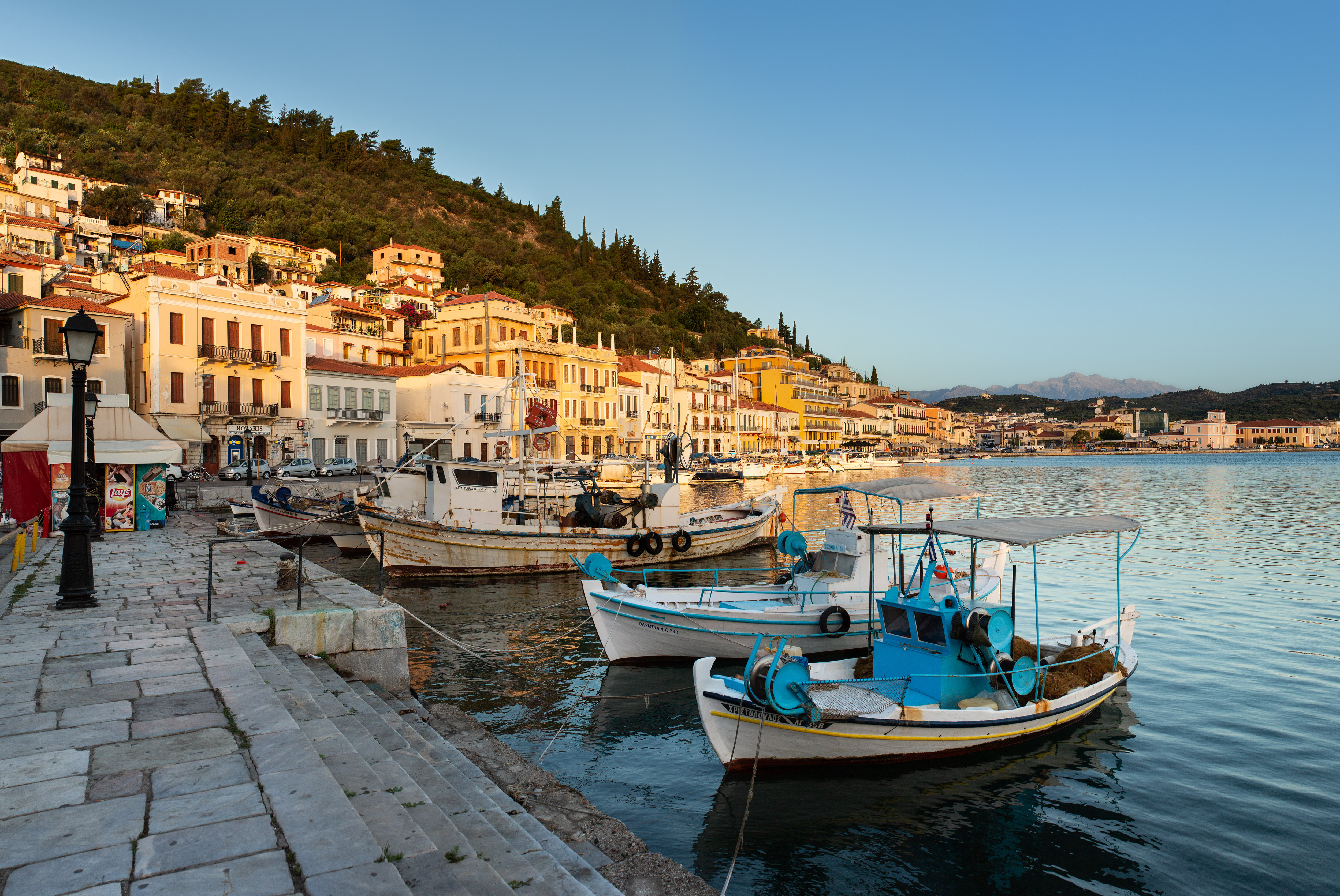 The port of Gythio looking northwest towards the town centre and promenade.